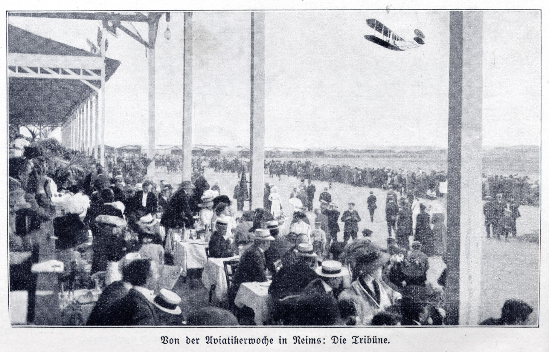 Photograph (taken from a catholic german magazin from 1910) of a biplane flying past the tribune of the Aviation week in Reims, France, August 22 - 29, 1909.